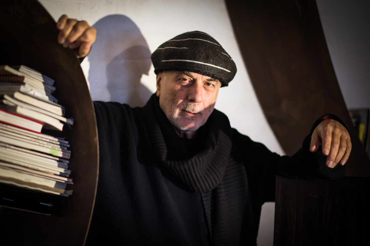 Ron Arad, at his studio in Chalk Farm, 2017